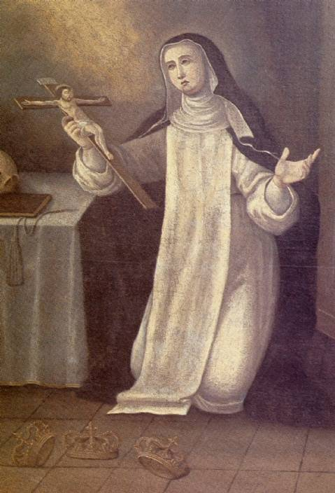 Painting anonymous, 18th cent. with blessed Joan of Portugal, at Museu de San Pedro, Cathedral of Aveiro